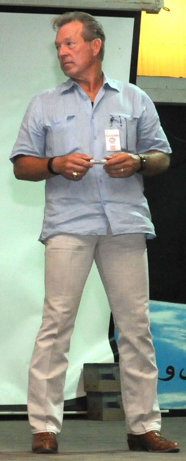 120905-F-US105-005 SOUTHWEST ASIA -- Mark Moseley, National Football League alumnus, answers questions from 380th Air Expeditionary Wing members during their visit here Sept. 5, 2012. Four Washington Redskins cheerleaders and four NFL alumni visited the wing Sept. 5 and 6 during an Armed Forces Entertainment tour. (Note the EXIF date of 2012-01-19 is likely incorrect.)